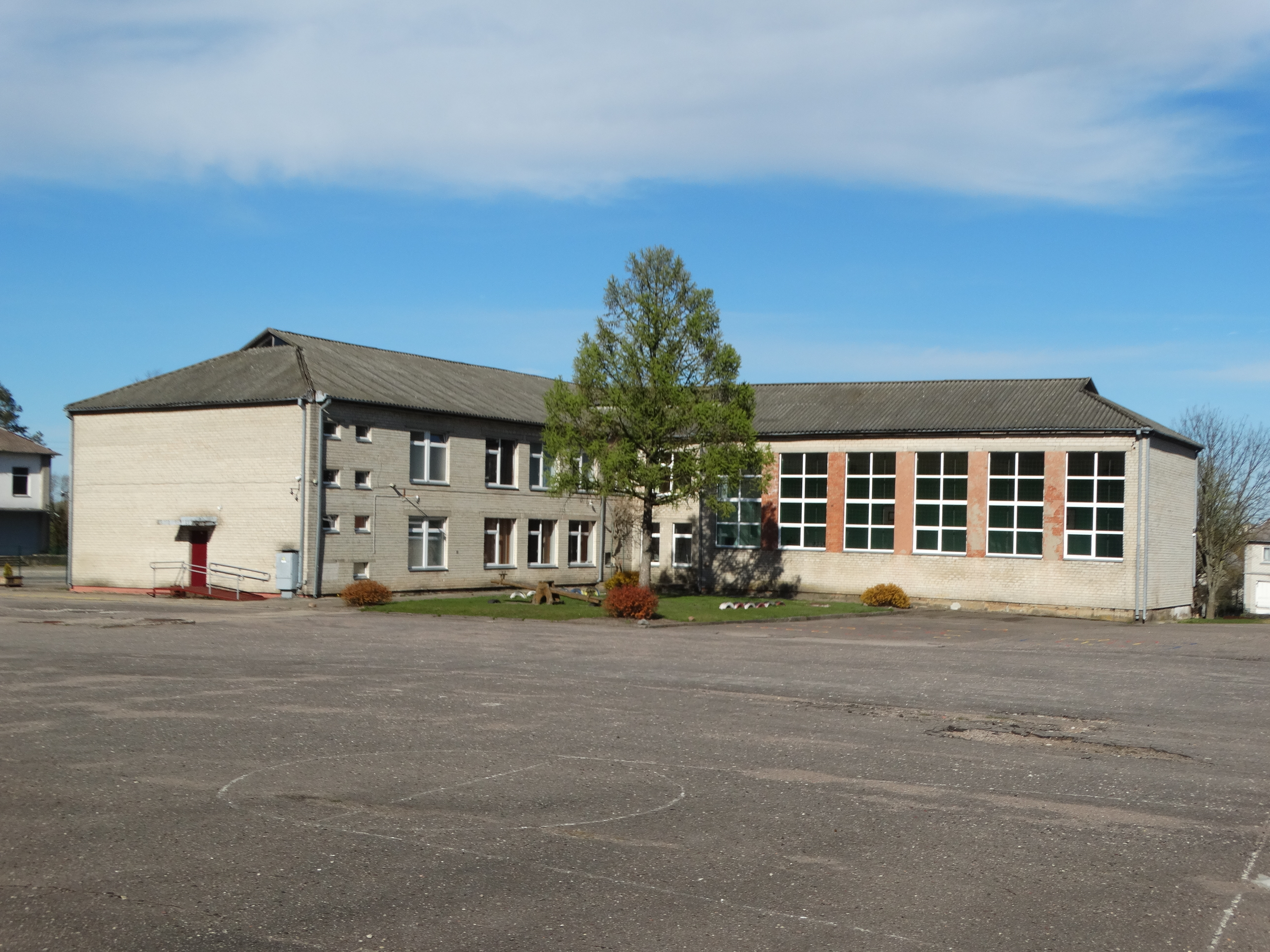 Tarailiai progymnasium, Tauragė, Lithuania